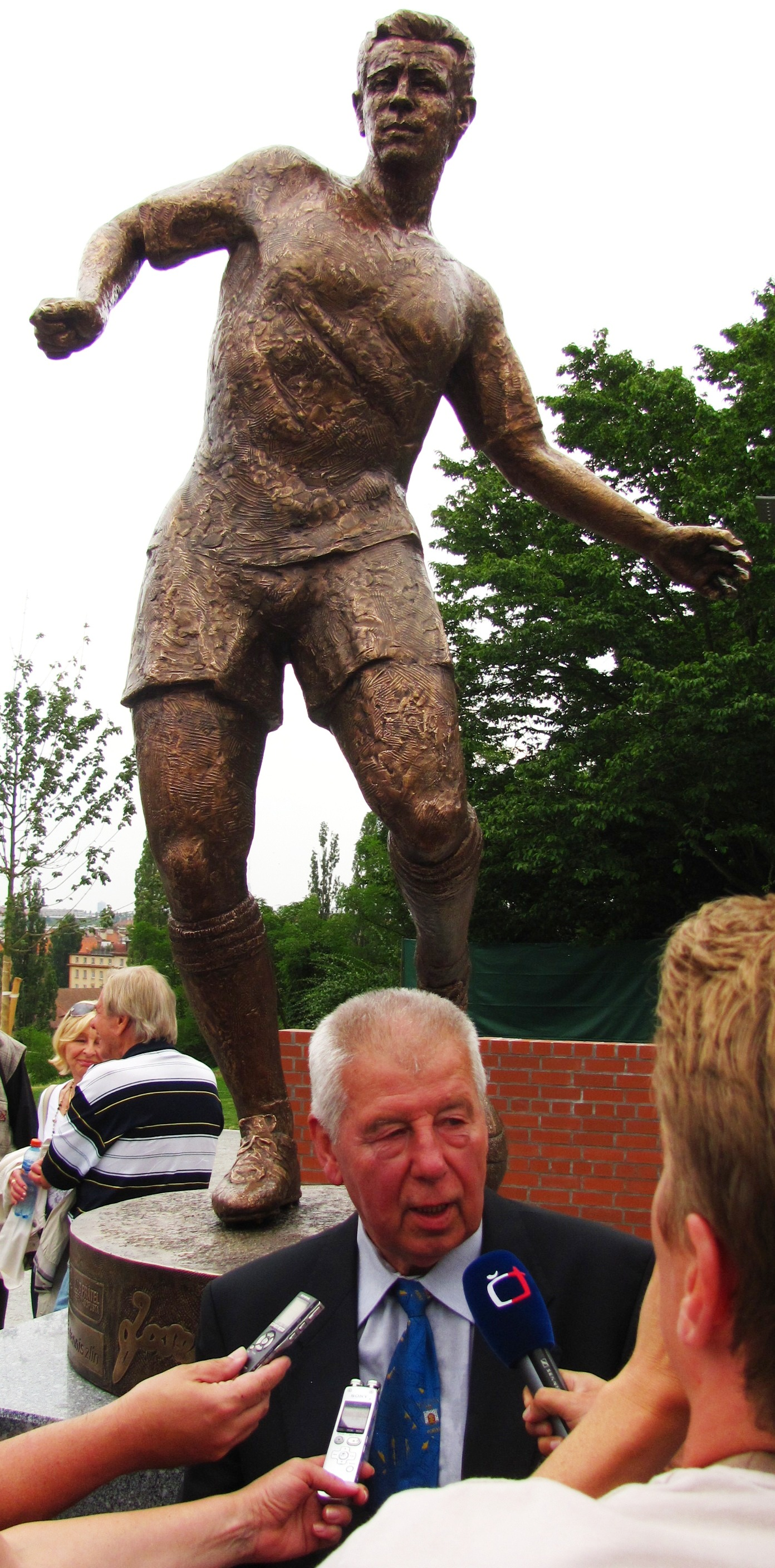 Josef Masopust, Czech footballer (2012)